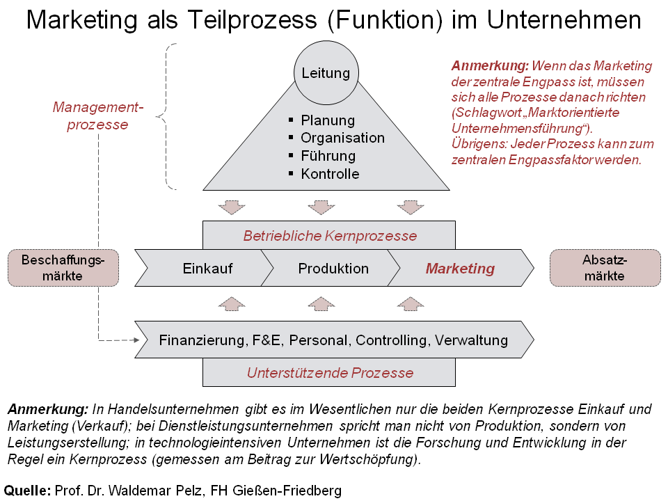 Marketing as a business function evergreen system.